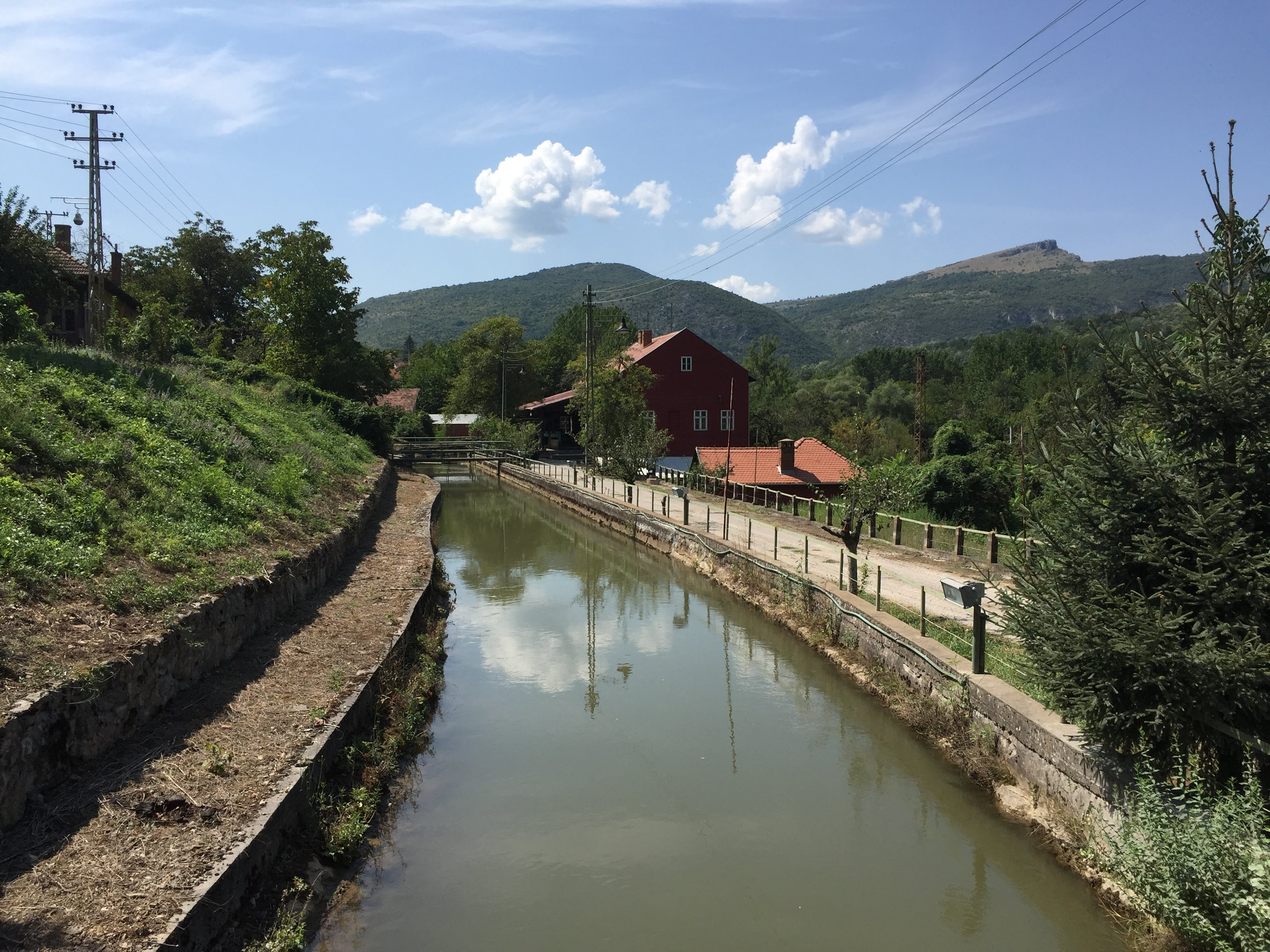 Small hydro power plant "Sveta Petka"